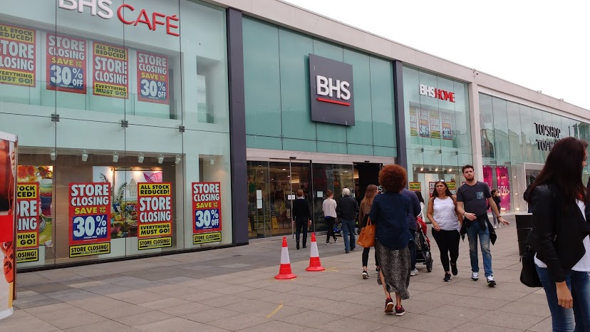 A BHS branch in Churchill Square, Brighton set to close down.